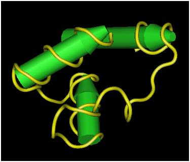 Predicted secondary structure of ARMCX6 using CBLAST and finding cyanase as only match.